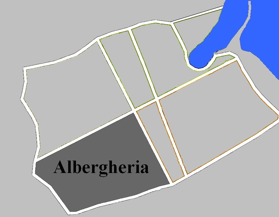 map of Albergheria